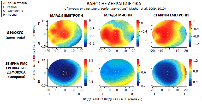 ВАНОСНИ ДЕФОКУС ОКА